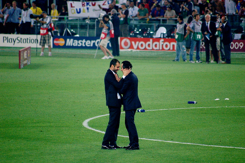 Josep Guardiola celebrating Barcelona's 2009 UEFA Champions League Final